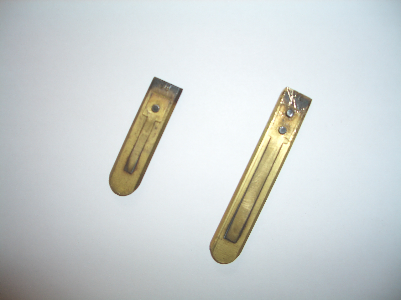 Two brass reeds from a Mason & Hamlin reed organ. Both are played by the middle D key- the left hand reed is of 4ft pitch, the right hand one 8ft.